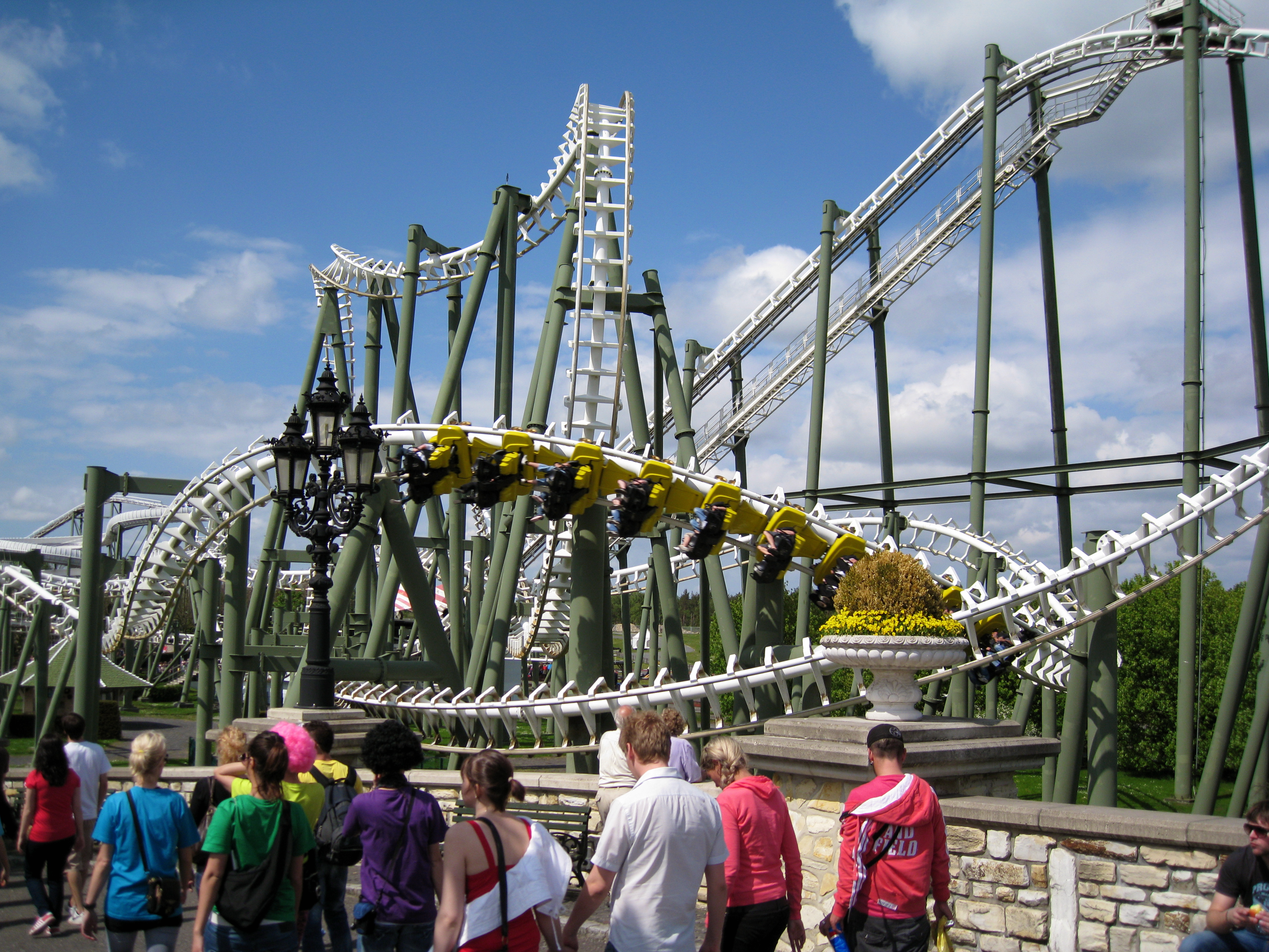 The inverted Vekoma SLC Limit in themepark Heide Park, Germany.